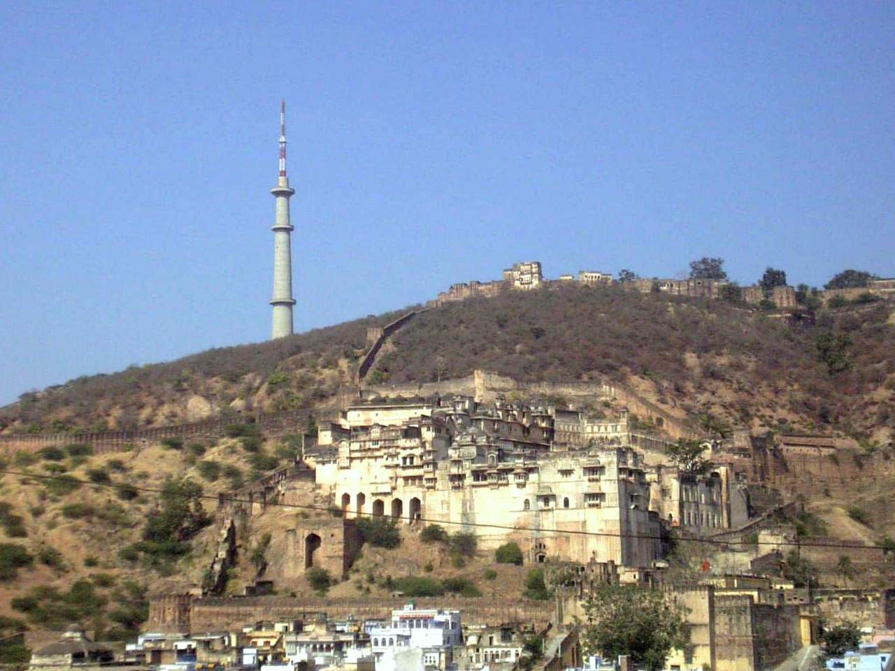 Photo of the Bundi Fort and Palace taken from the Highway